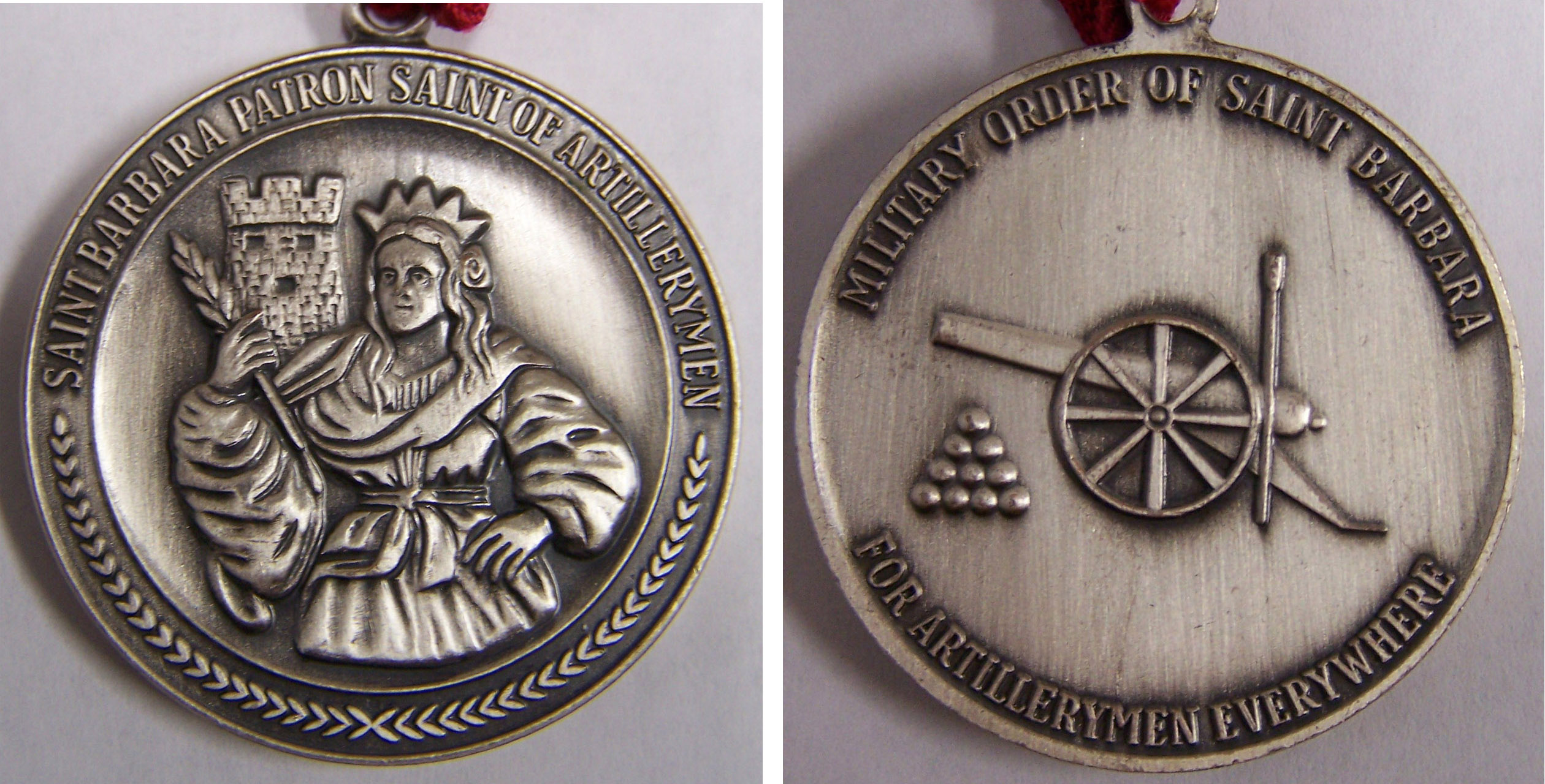 Combined pictures of front and back of Order of Saint Barbara medallion.